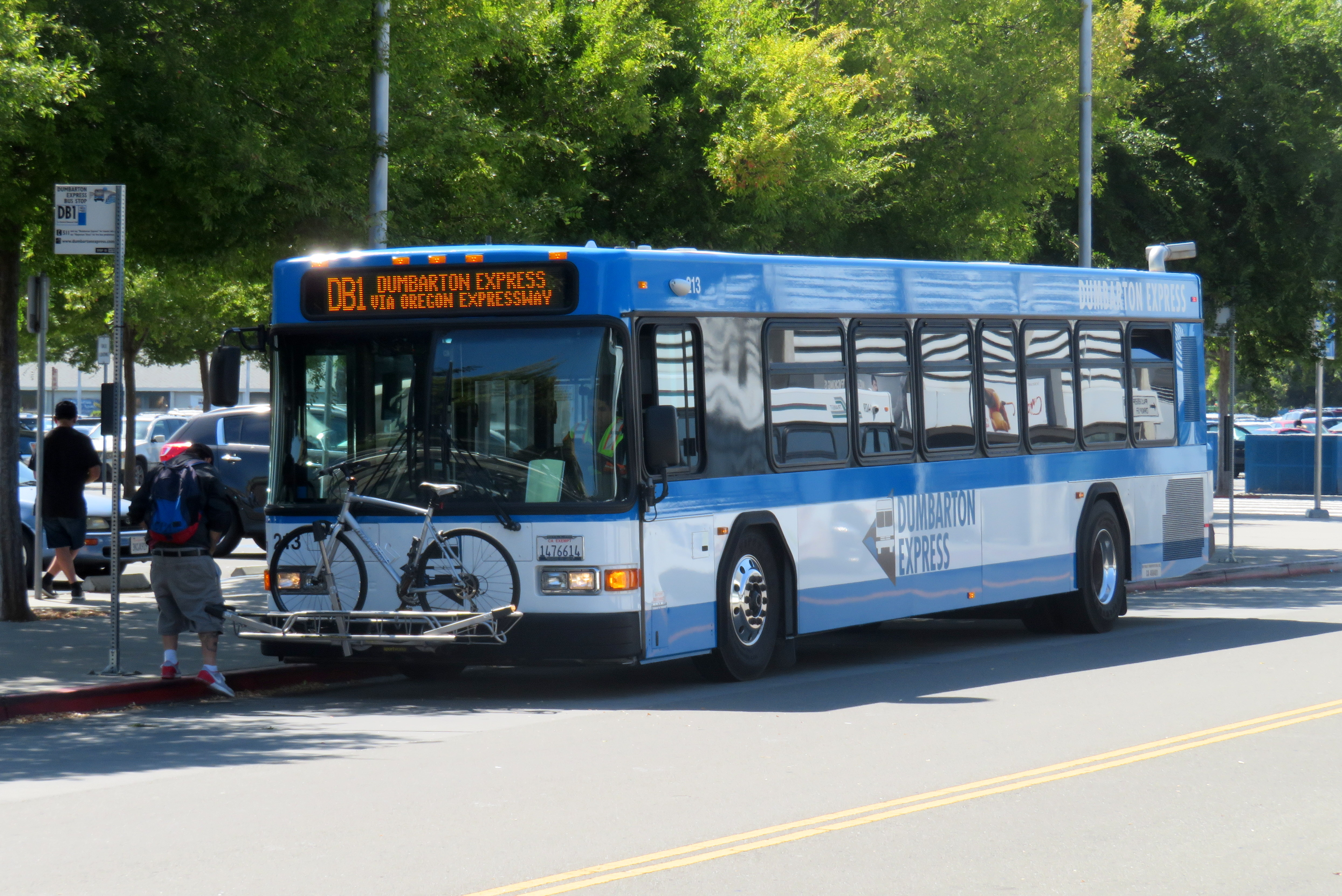 Dumbarton Express bus at Union City station in July 2018